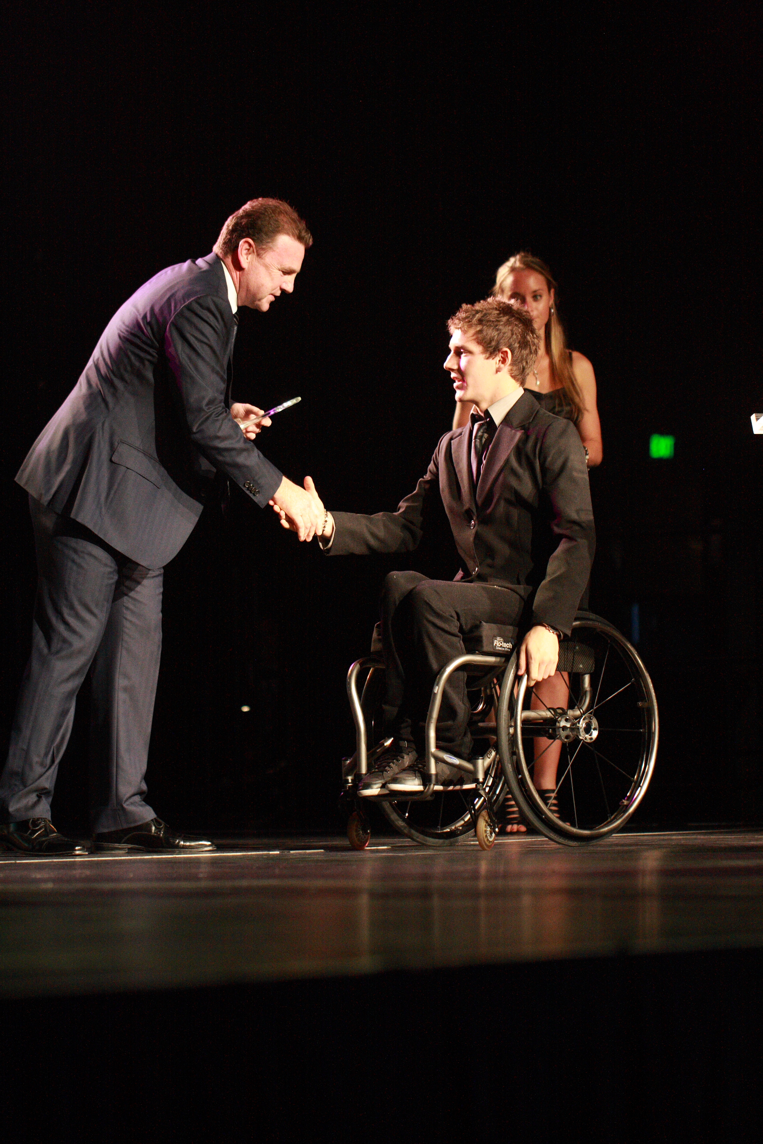 Australian Paralympian of the Year 2012 ceremony at the Hordern Pavilion, Sydney, Australia.